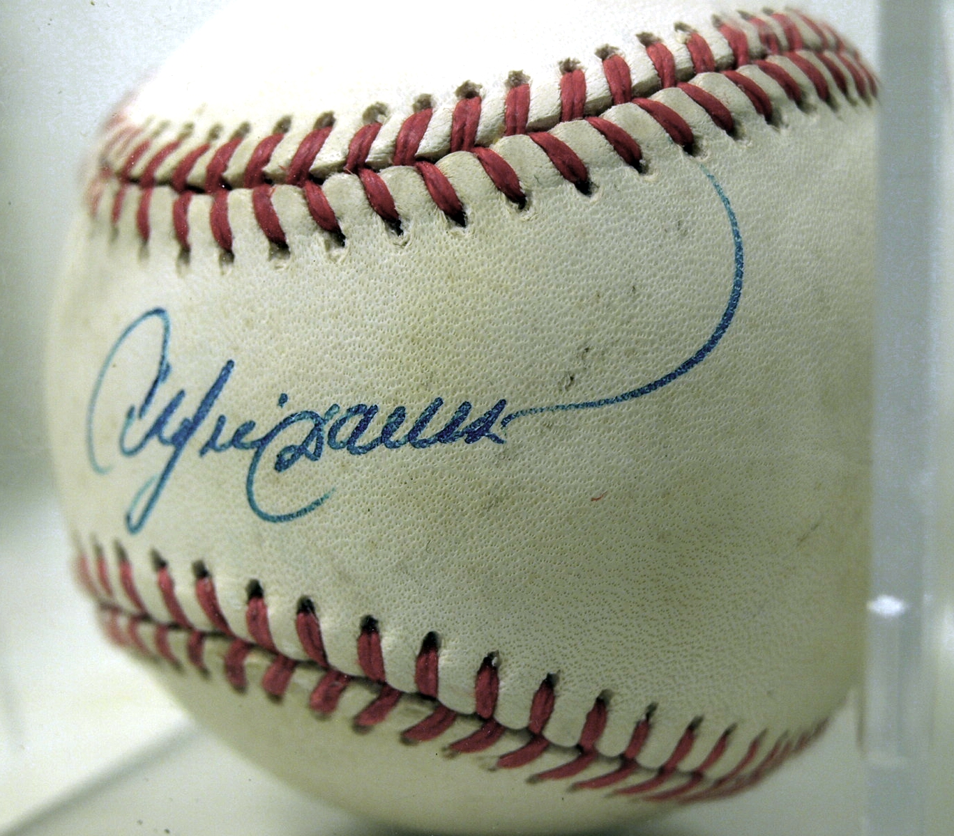 An autographed baseball by Major League Baseball Hall of Fame outfielder Andre Dawson.This photograph was taken with an Olympus E-510 DSLR camera and edited (for color balance, saturation, brightness and contrast) using ArcSoft Photostudio 5.5